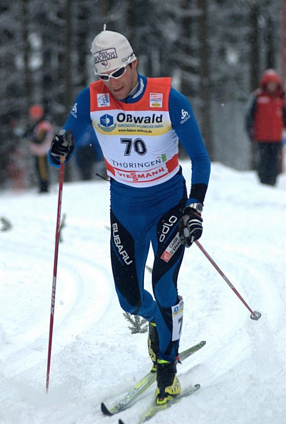 Jean_Marc Gaillard at the Tour de Ski 2010 in Oberhof